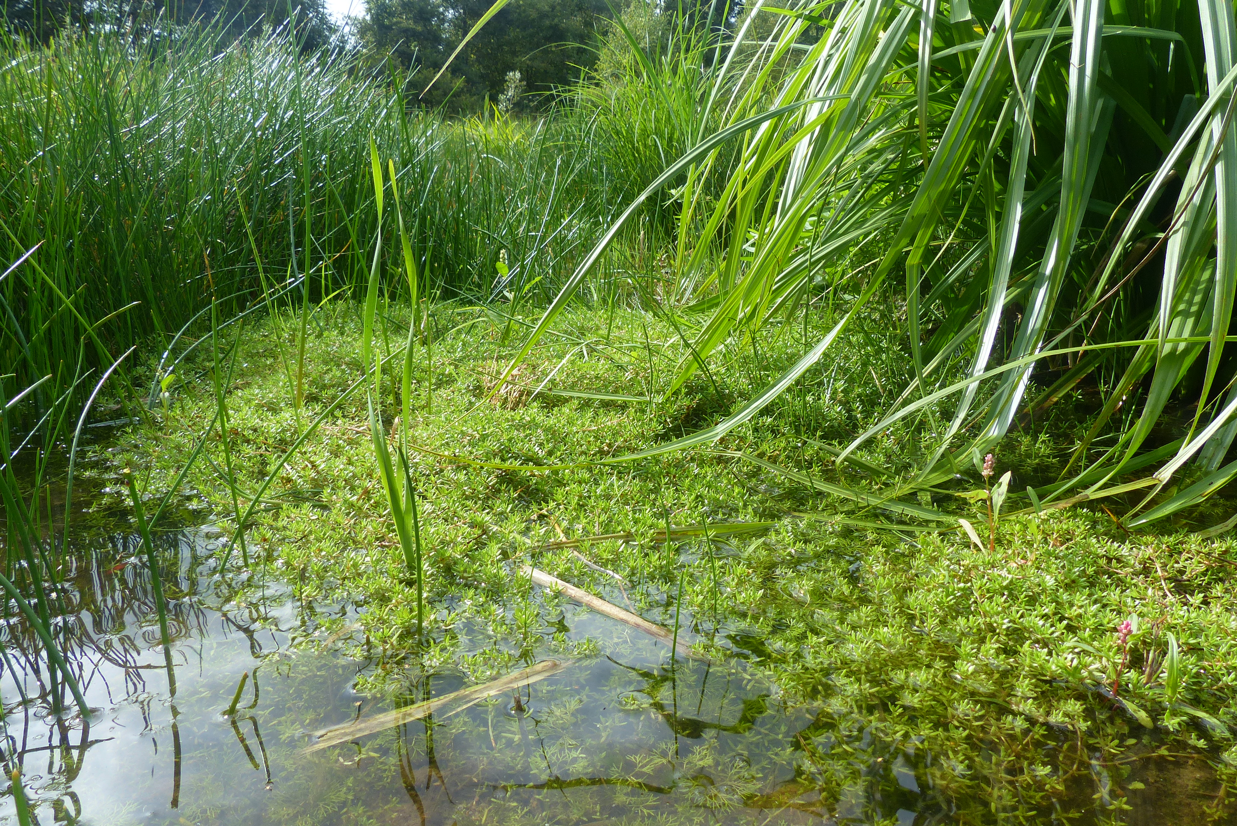 Crassula helmsii